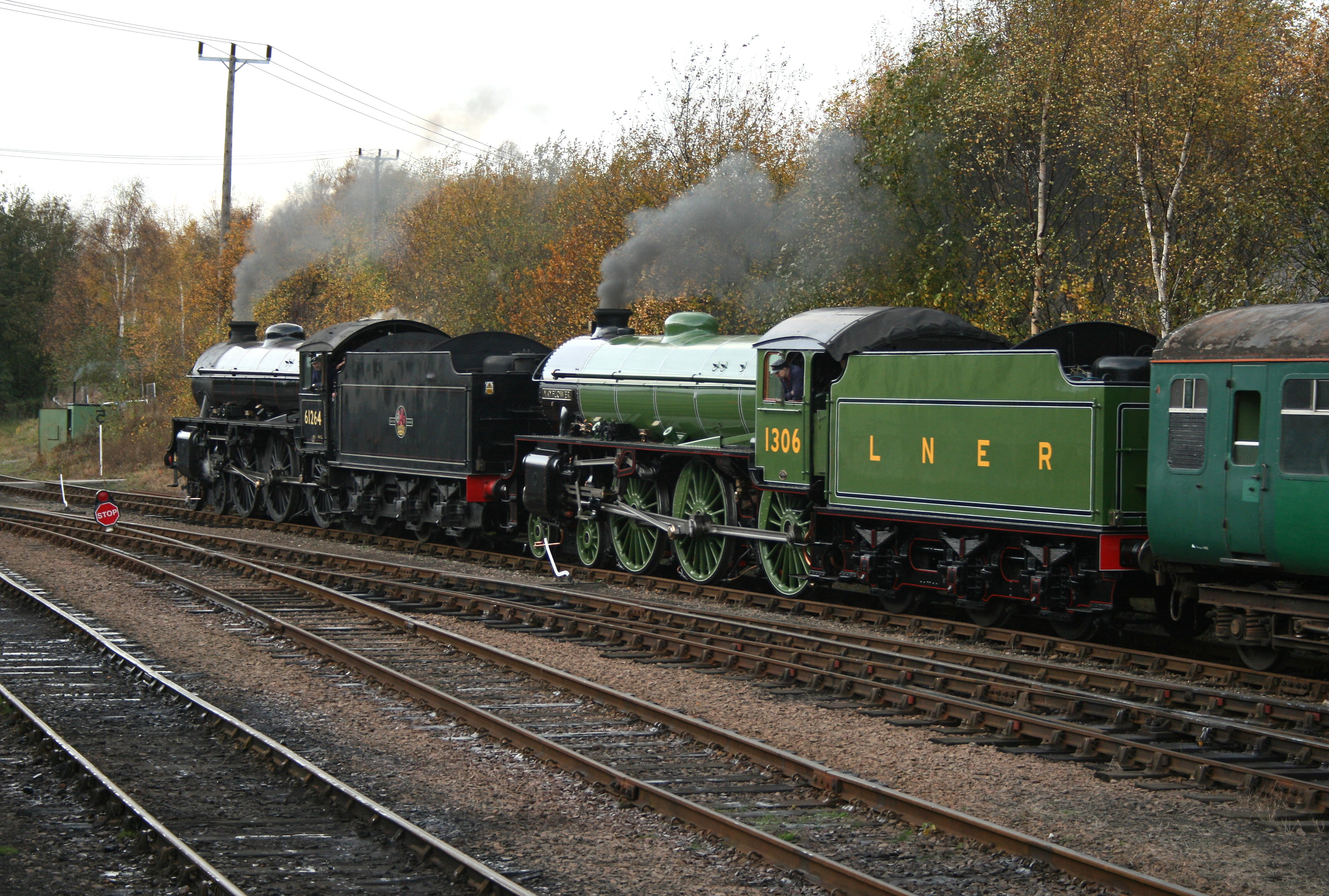 Both of the preserved LNER Thompson Class B1s, No. 61264 piloting "1306 Mayflower" at Barrow Hill Engine Shed, 10 November 2007. Please see more of Dave's pictures at